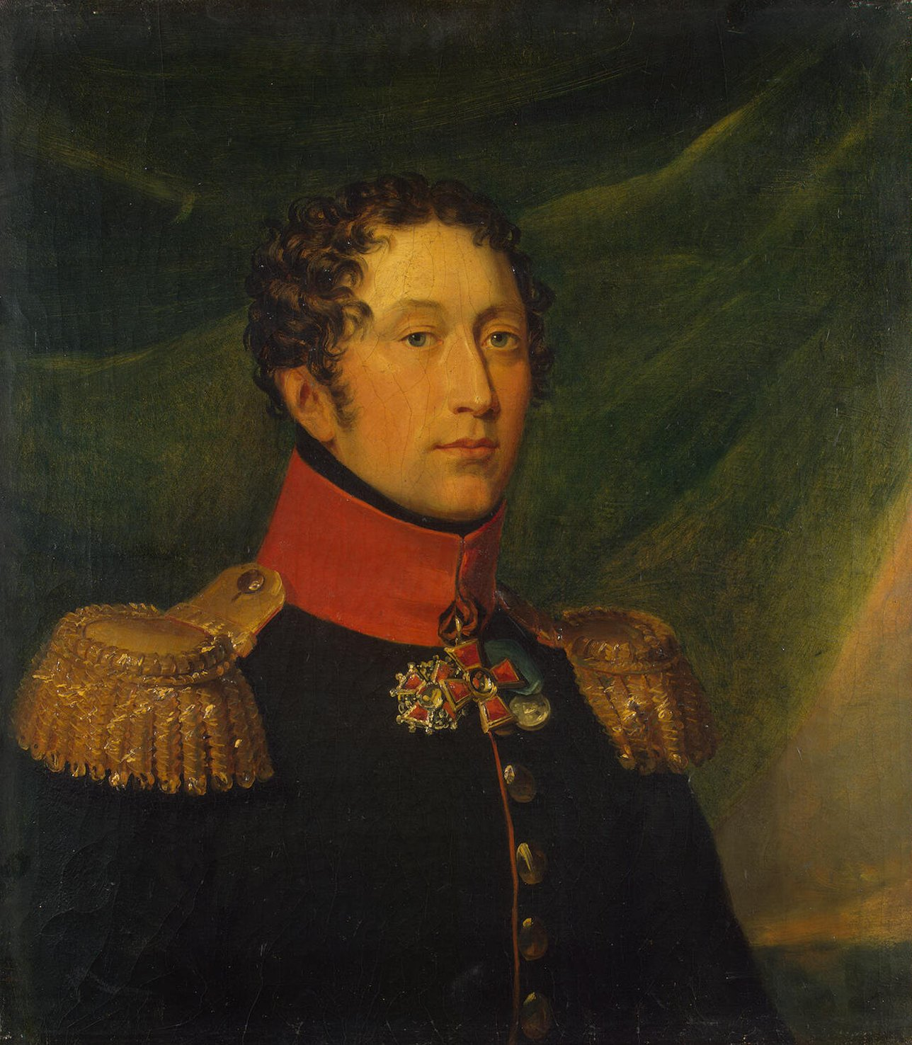 Aleksey Semyonovich Kologrivov (1776 – 1818) russian general